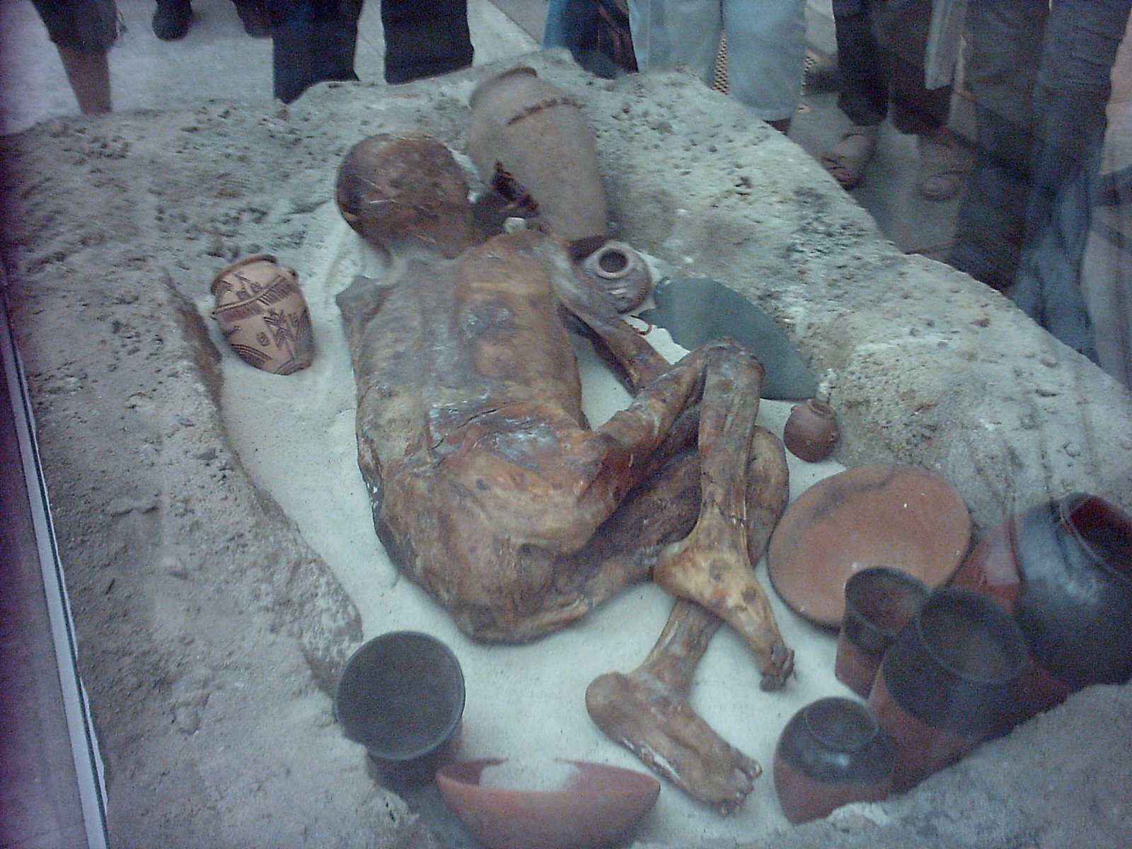 hecha por mi